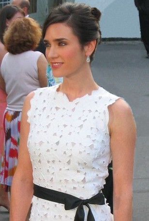 Jennifer Connelly in Central Park, New York City, cropped from File:Jennifer Connelly 2005.jpg by MachoCarioca.Jennifer Connelly at Central Park